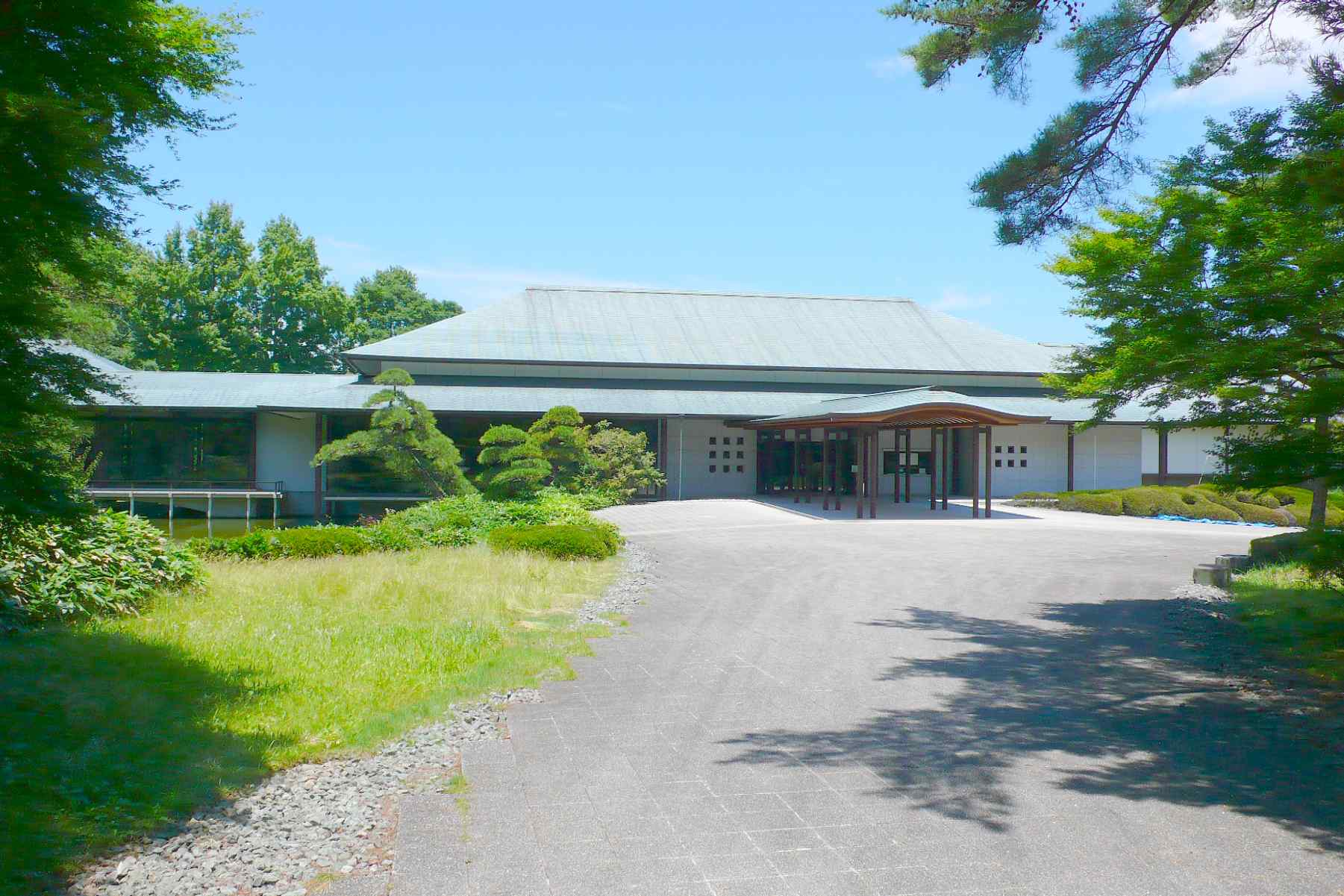 The Jingu Museum of Fine Arts (Jingu Bijutsukan) at Ise city Mie Prf. Japan.